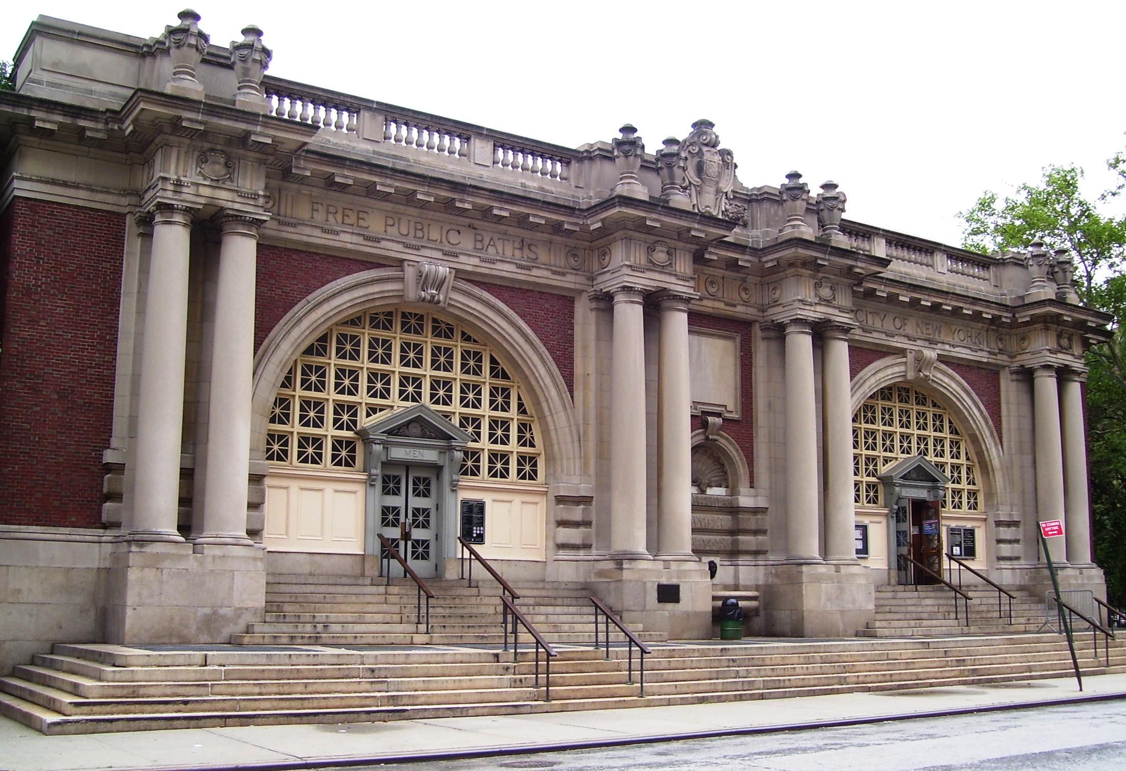 Asser Levy Recreation Center on East 23rd Street and Asser Levy Place, Manhattan, New York City, was built as a free public bath in 1904-1906, designed by Brunner & Aiken, and modeled after the public baths of ancient Rome. The baths were intended to help relieve the unsanitary conditions in the slums, where many people did not have access to private bath or shower. It is named after a prominent Jewish citizen of the Dutch colony of New Amsterdam, which preceded the English city of New York. It was designed by Arnold W. Brunner and Martin Aiken in the firm Brunner & Aiken. {Sources:Guide to NYC Landmarks (4th ed.), descriptive plaque on site)